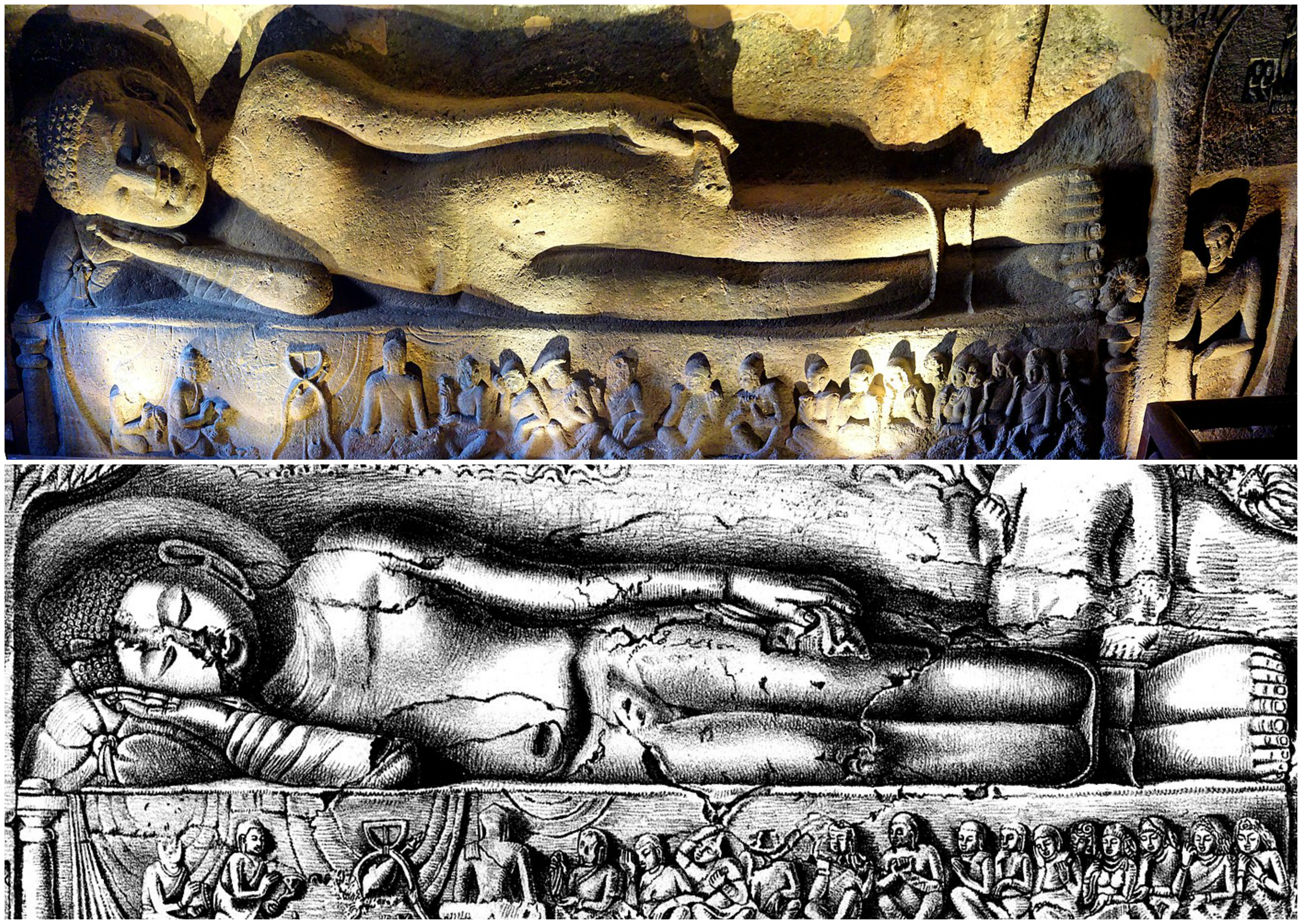 This is a derivative work on the following two files available on wikimedia commons: 100 Cave 26, Buddha in Parinirvana (34219037182).jpg Ajanta Cave 26 Nirvana of the Buddha.jpg